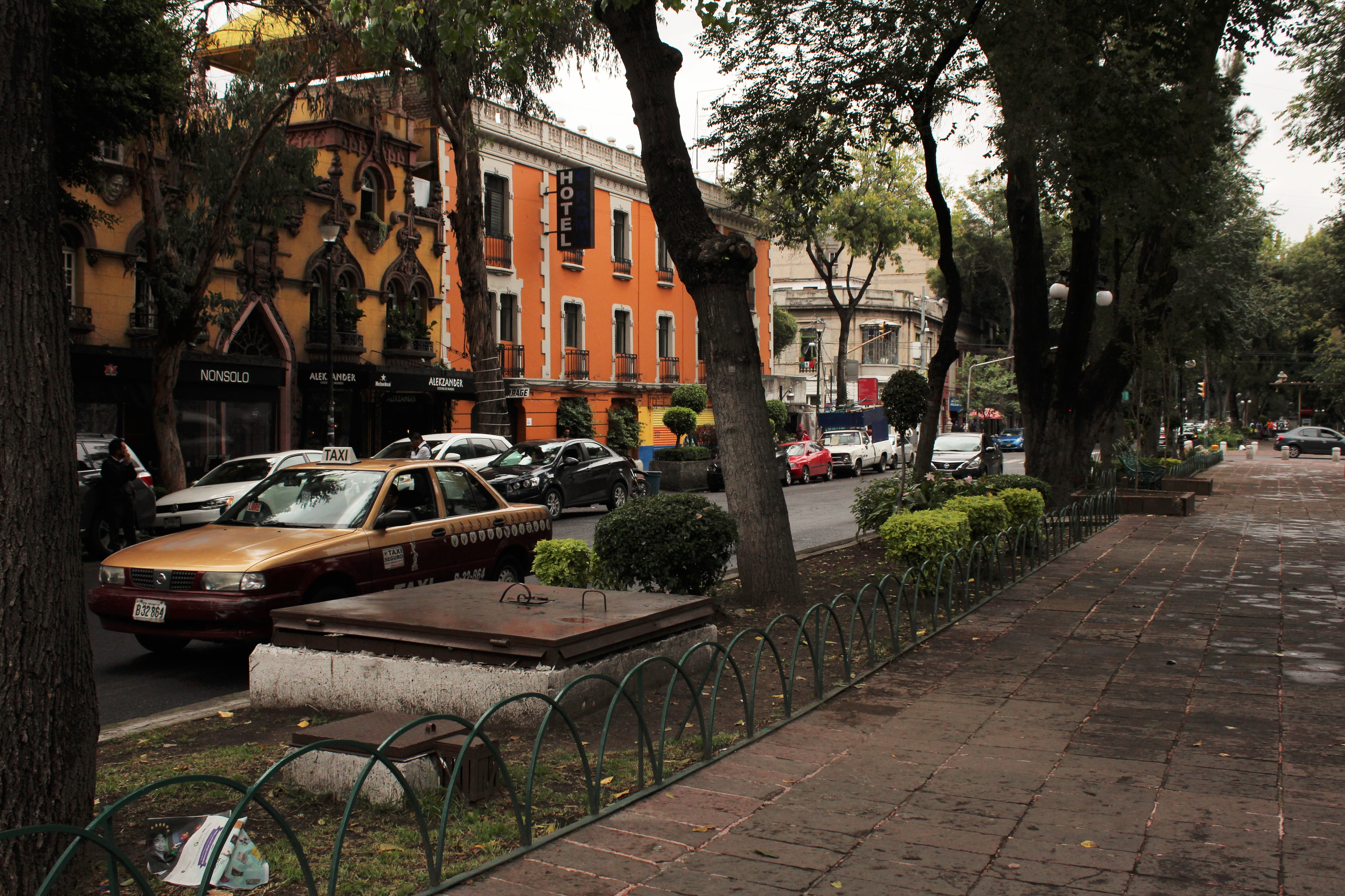 Caption from transit on a rainy day at Álvaro Obregón avenue